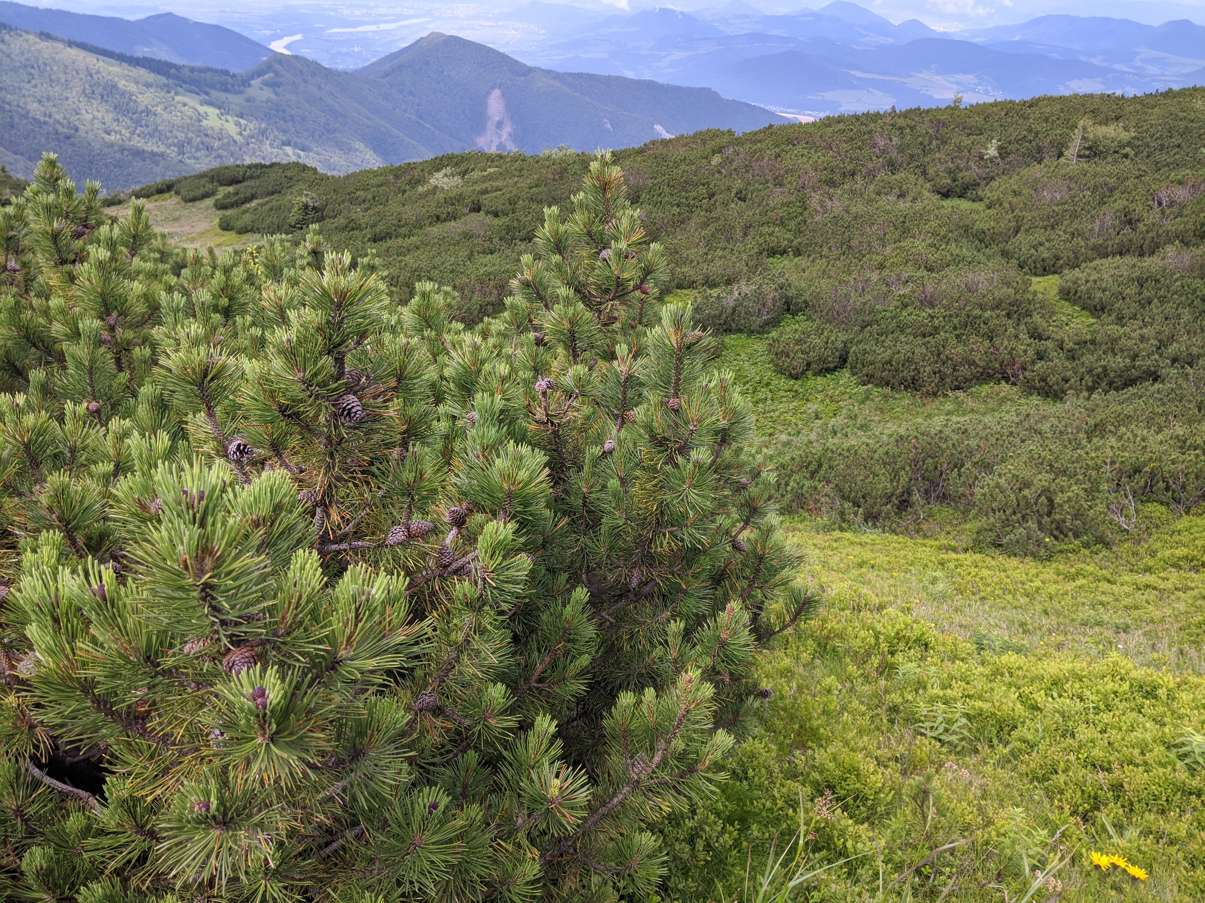 Pinus mugo in Malá Fatra, as was already said in the heading